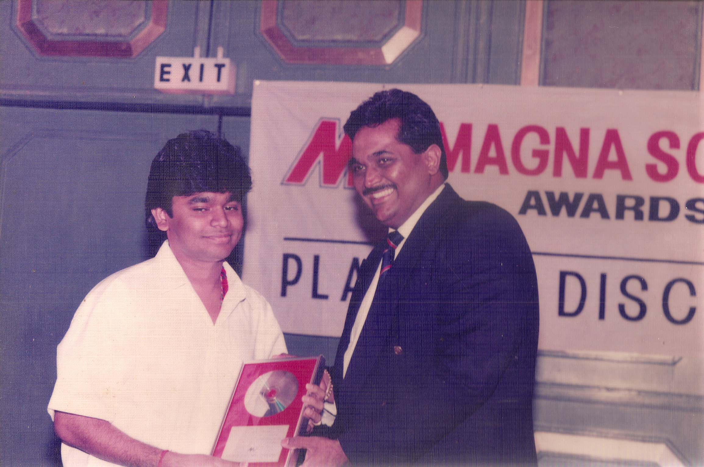 Shashi Gopal presenting a platinum disc to A.R.Rahman